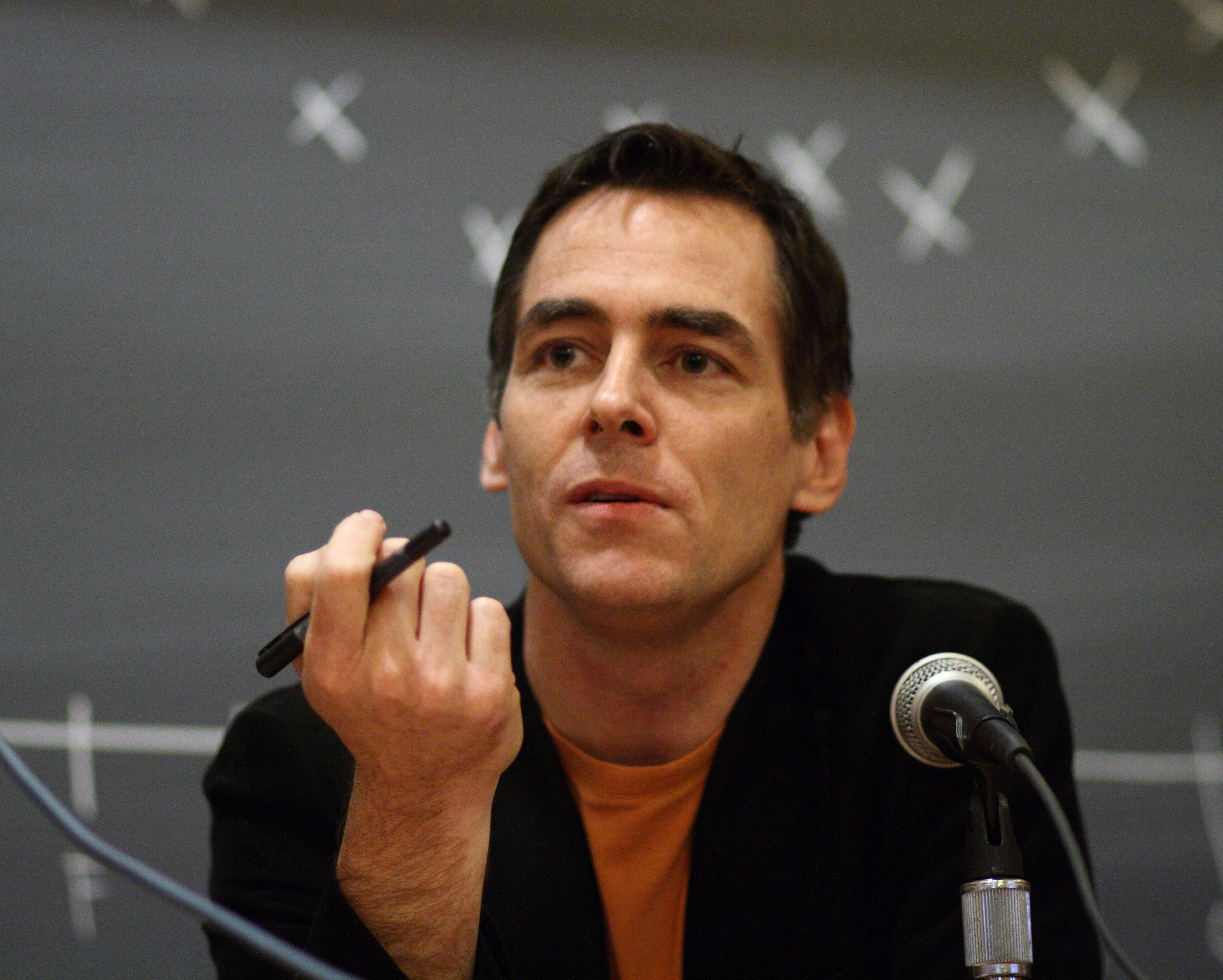 Julian Dibbell at the Writers on Writing about Technology roundtable at Yale University marking the publication of The Best Technology Writing 2009 (Yale University Press), to which Dibbell contributed.